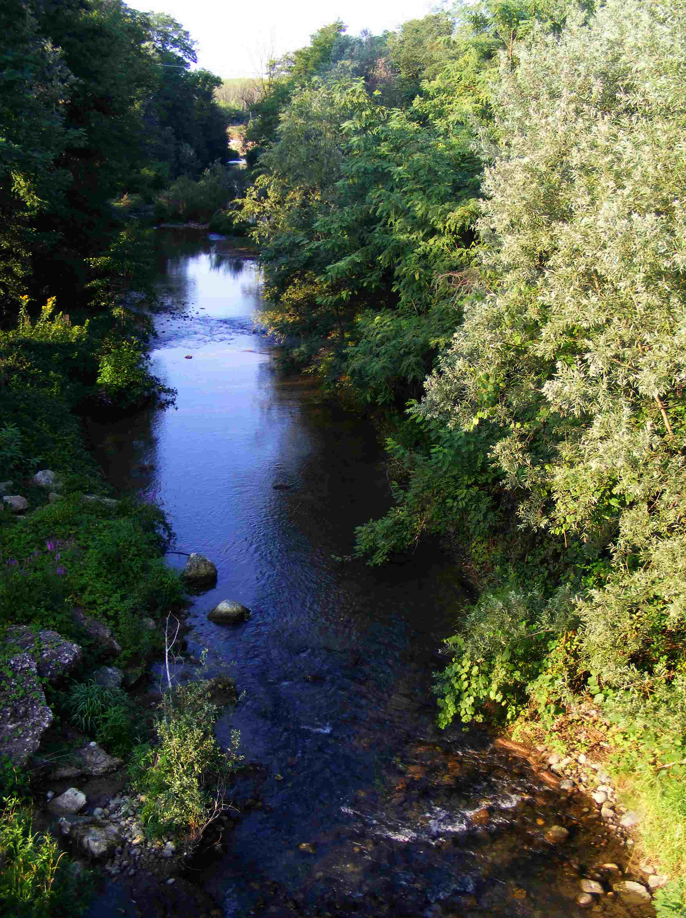 Rovasenda creek near Rovasenda (VC, Italy)